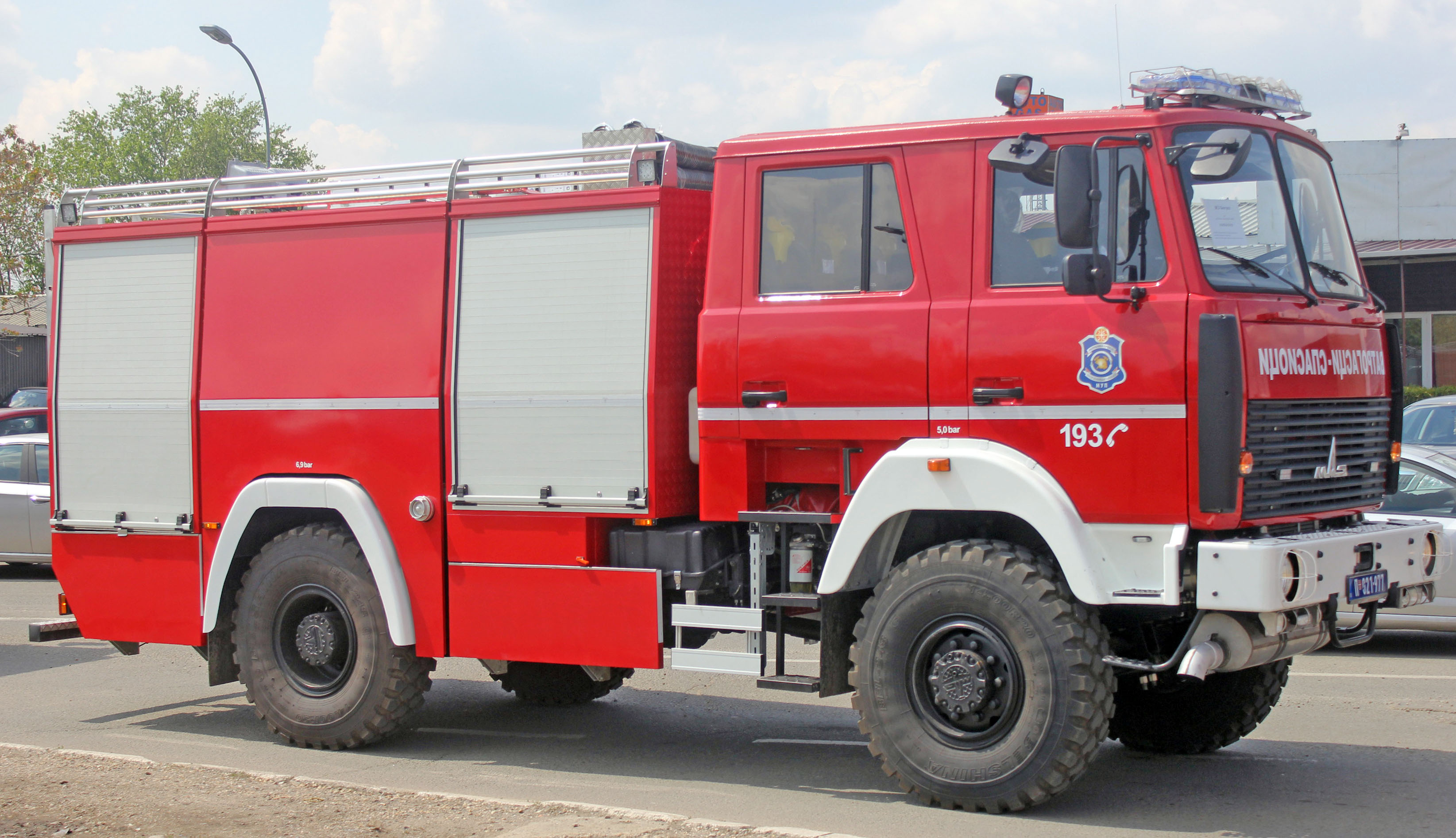 New MAZ 5316 fire engine of Belgrade fire and rescue brigade.